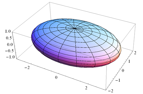 Ellipsoid with a = 3, b = 2 and c = 1.